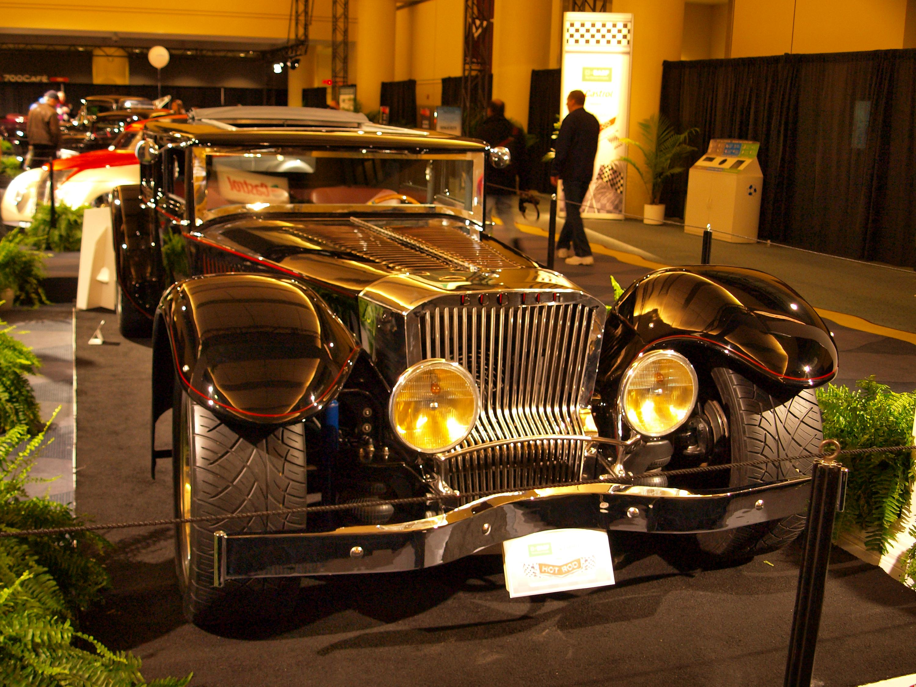 A Hot Rod reminiscent oft the Saoutchik-built 1932 Bucciali TAV Berline.